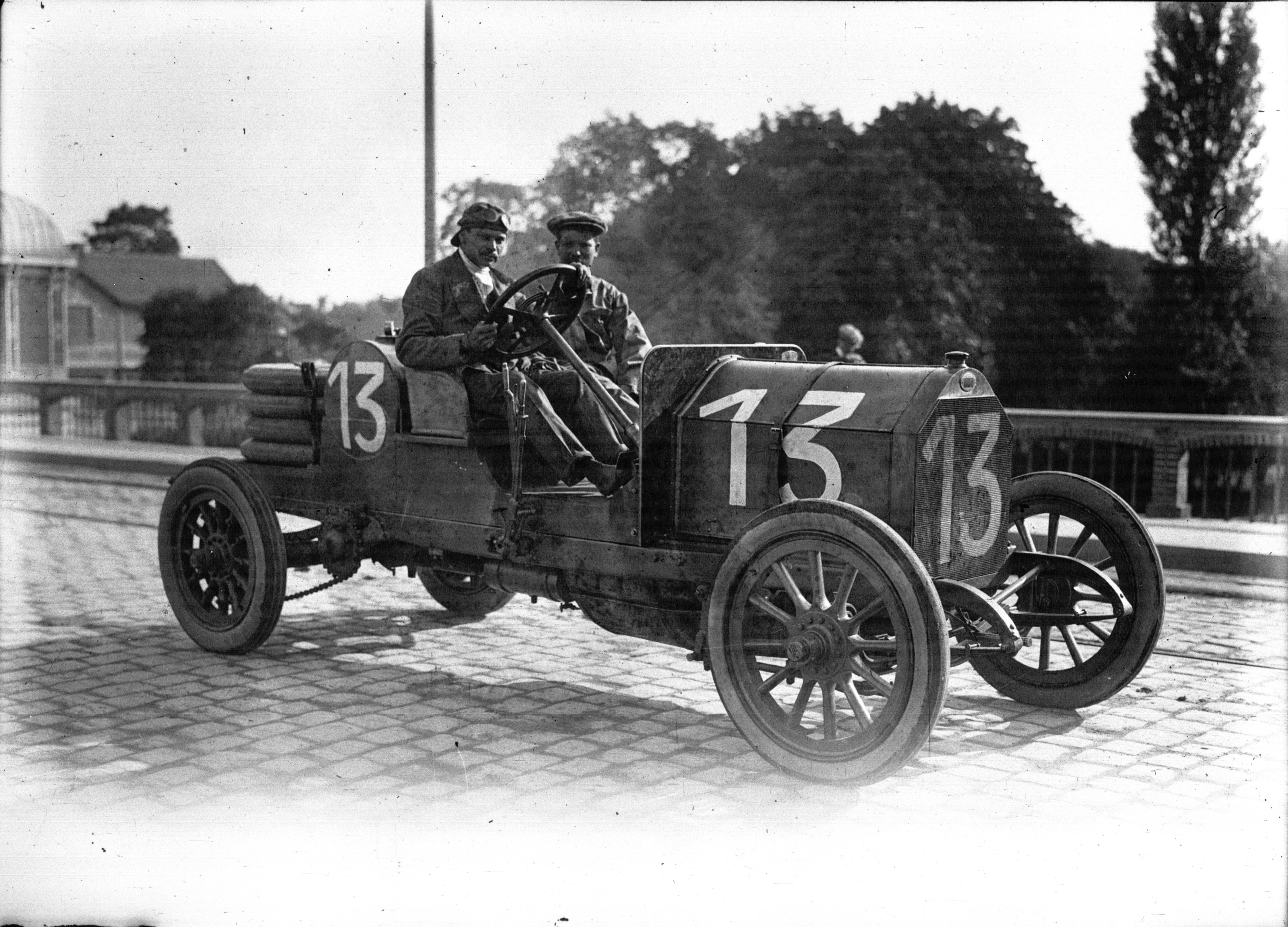 Victor Hémery at the 1911 Grand Prix de France at Le Mans.